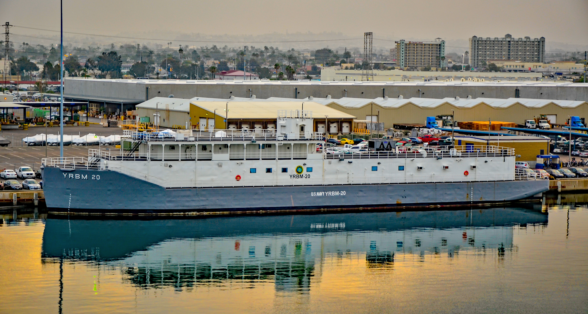 The YRBM-20, known as "The Delta Hilton" was a floating Brown Water Navy base in Vietnam during 1969 and 1970. Naval Base San Diego USS Essex (LHD-2) Family Reunion 2016 Photo: TDelCoro March 4, 2016